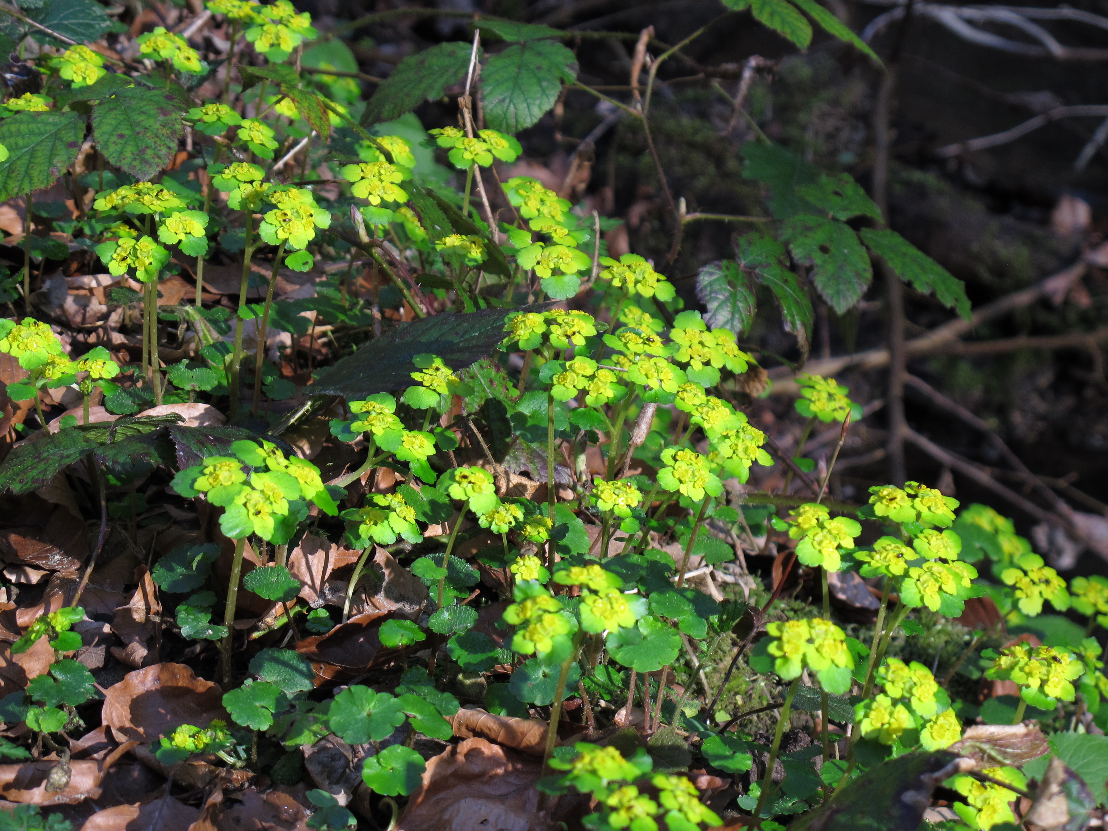 Chrysosplenium alternifolium (dt.: Wechselblättriges Milzkraut), spring in the Hödinger Tobel near Überlingen/Germany